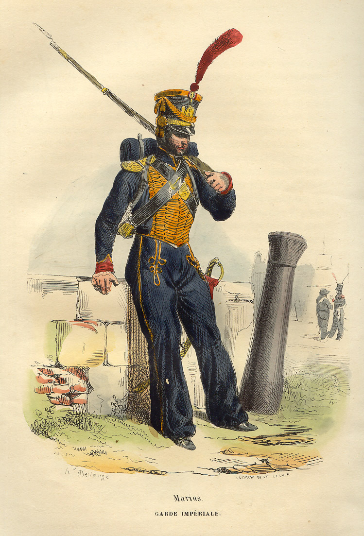 Marine from the Imperial Guard of the Grande Armée. From book of P.-M. Laurent de L`Ardeche «Histoire de Napoleon», 1843